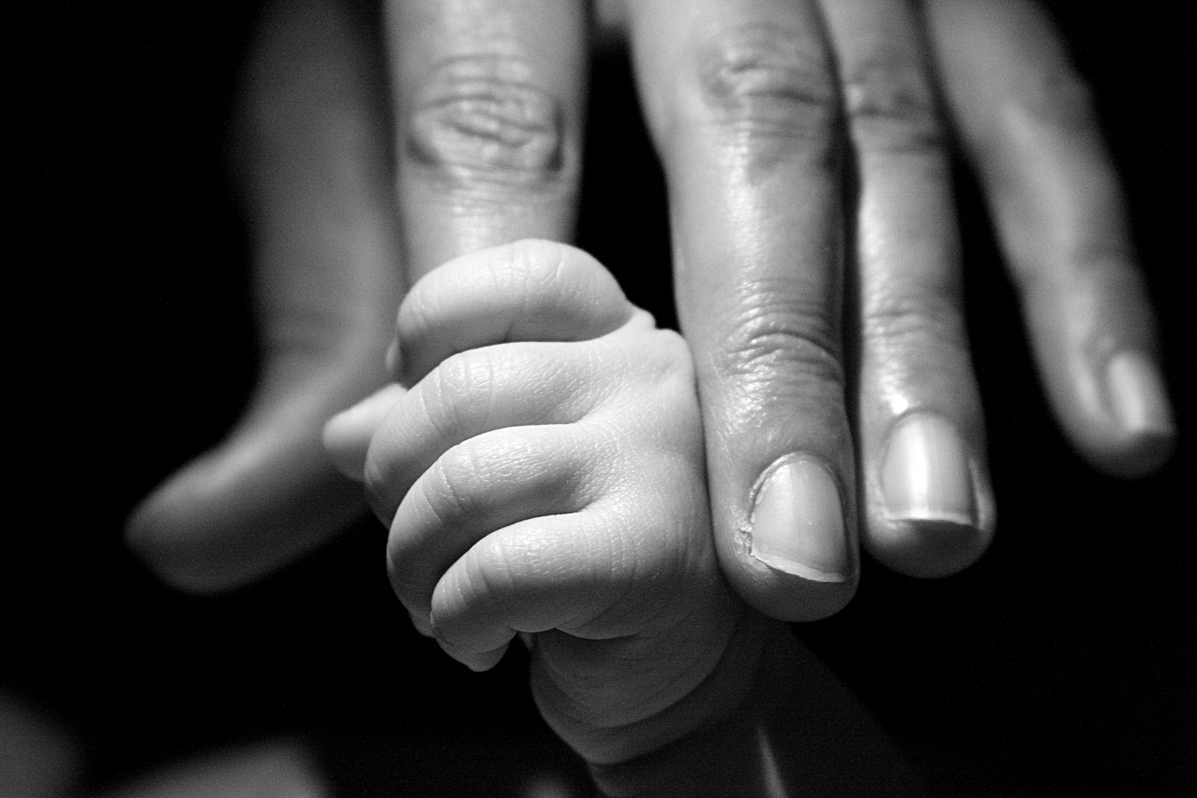 Grasp Reflex in a baby holding an adult's finger